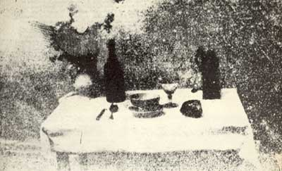 Still life of a set table, by Joseph Nicéphore Niépce, c. 1832, the second earliest known camera photograph of which any visual record has survived. It is seen here in a late 19th century printed reproduction. The original, which was on glass, disappeared very early in the 20th century and is presumed to have been accidentally destroyed; several conflicting accounts of its demise exist, including a suspiciously colorful one in which a mad scientist analyzing it went berserk and smashed it along with everything else in his laboratory.